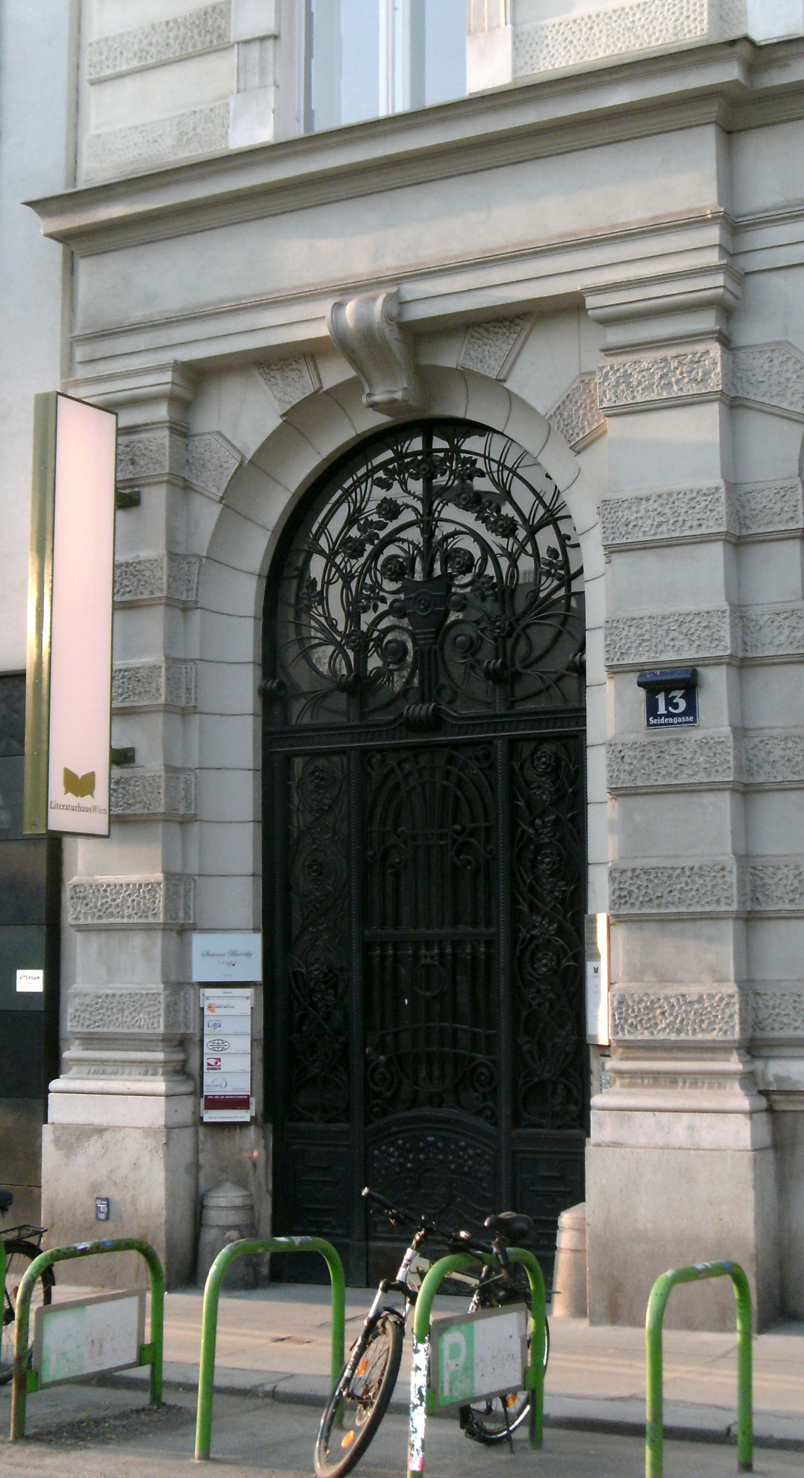 Portal of Literaturhaus Wien (i.e. Vienna House of Literature) in Seidengasse 13, Vienna's 7th district